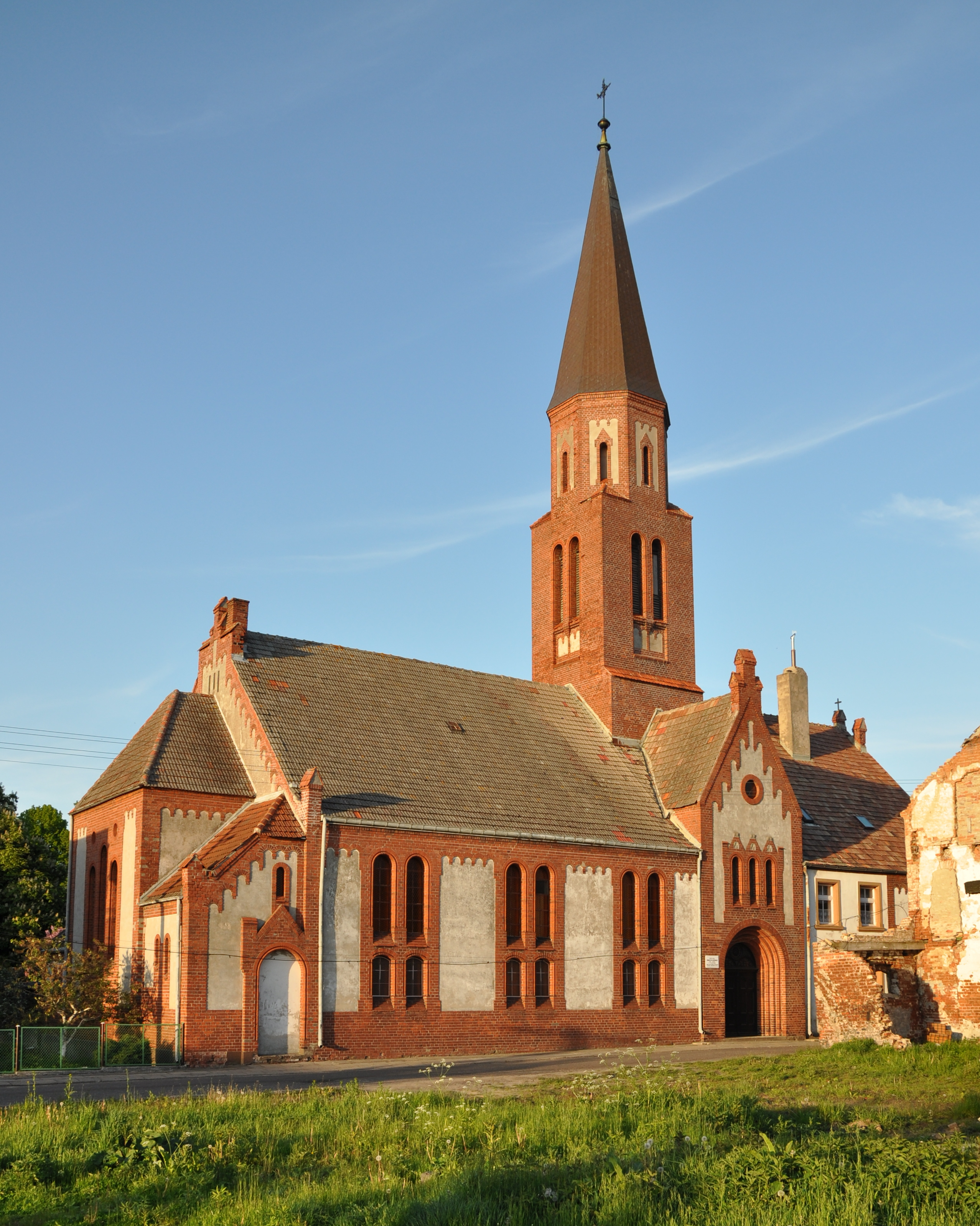 St. John Evangelical Church in Trzebiatów, Poland